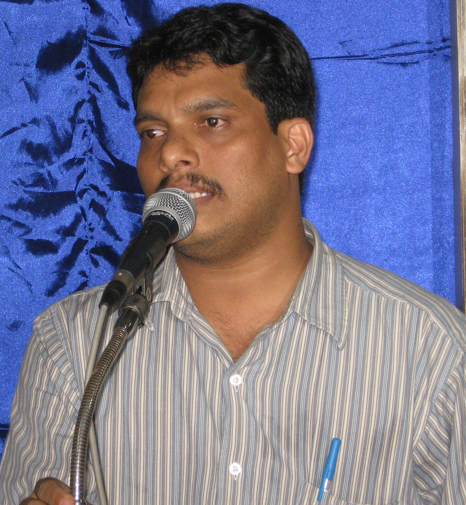 malayalamwriter thaha madayi